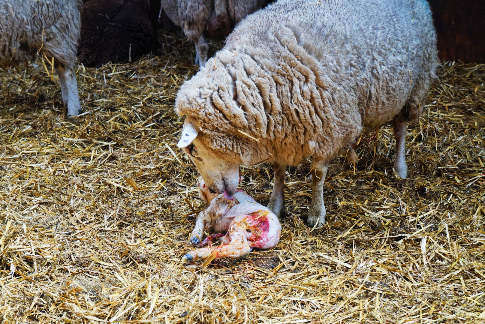 A newborn lamb being taken of by mother.